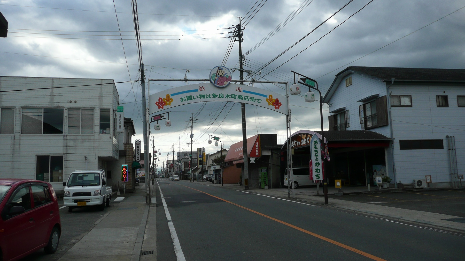 National Route 219 (Japan) - Taragi Town Market